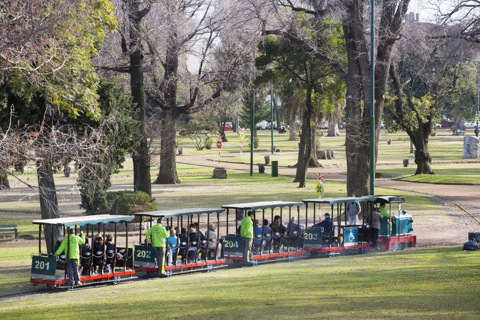 Tren del Parque Avellaneda. Fotos Andrés P. Moreno / prensa Mayep GCBA